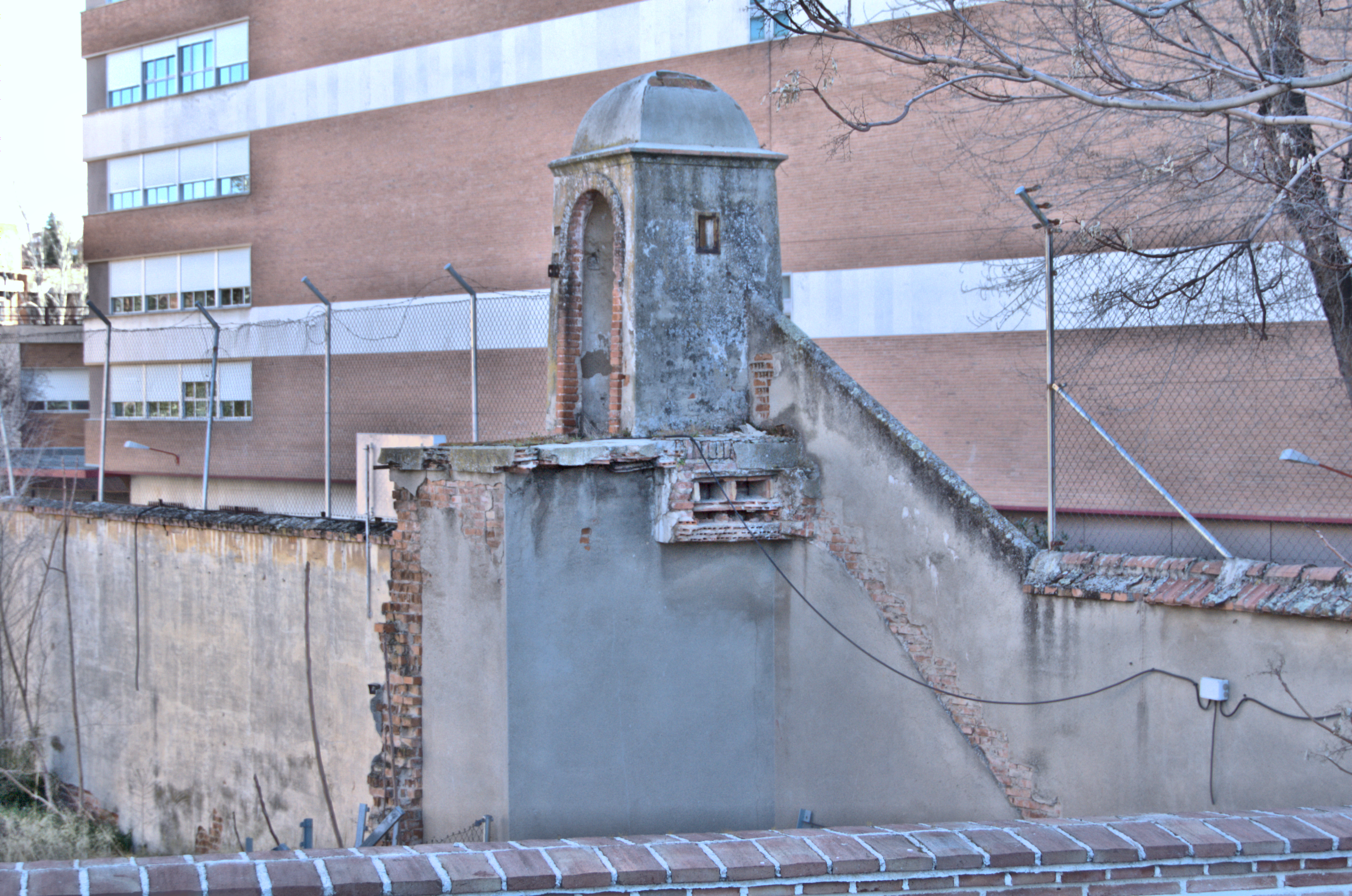 Bartizan, with access stairs destroyed, the military prison that was installed in the old College of San Basilio Magno in Alcalá de Henares (Community of Madrid - Spain).